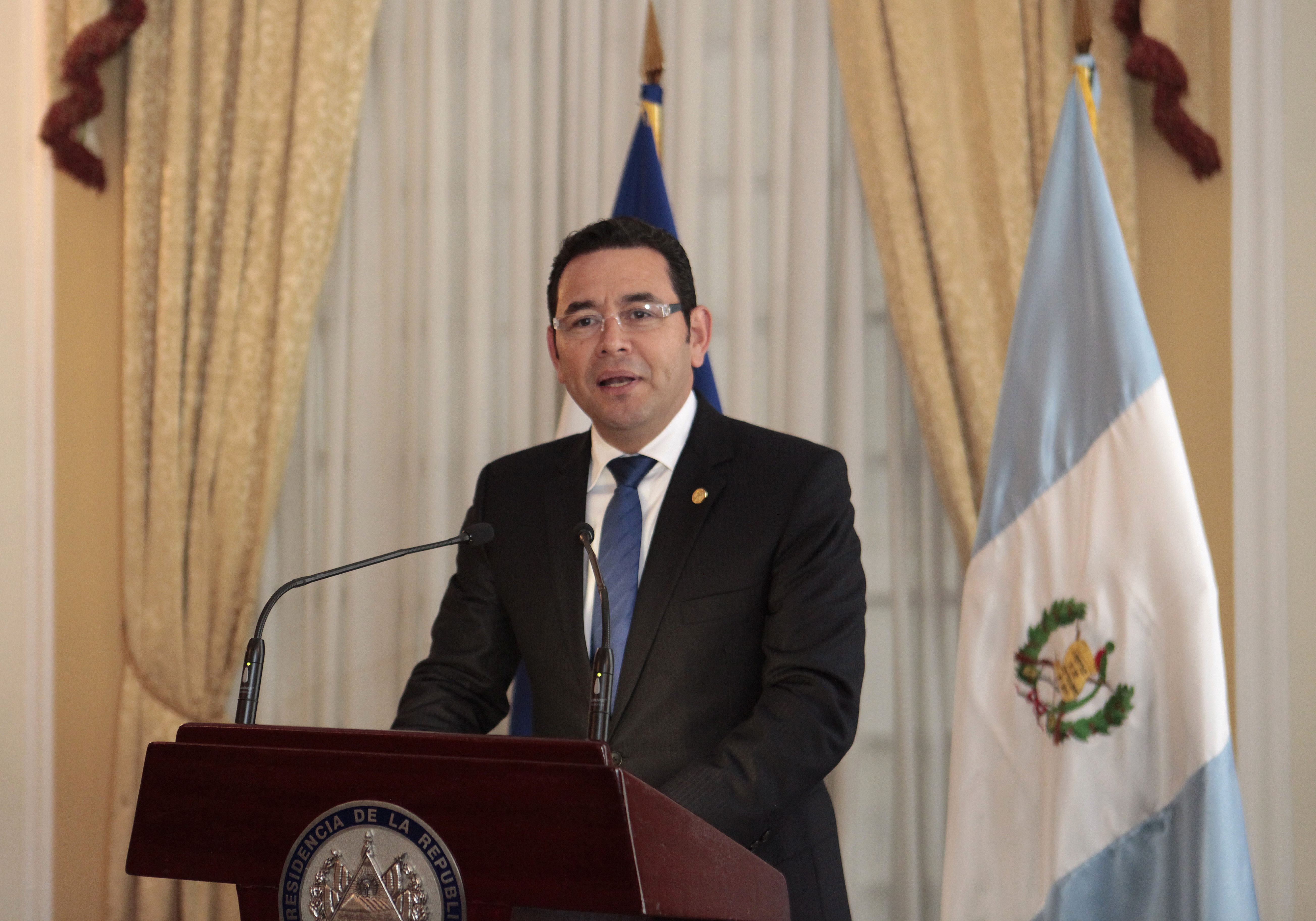 Presidente de Guatemala, Jimmy Morales .